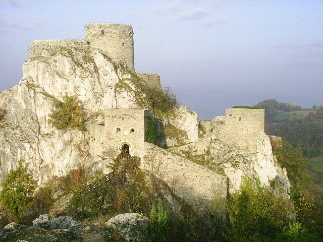 Srebrenik Castle, Bosnia and Herzegovina